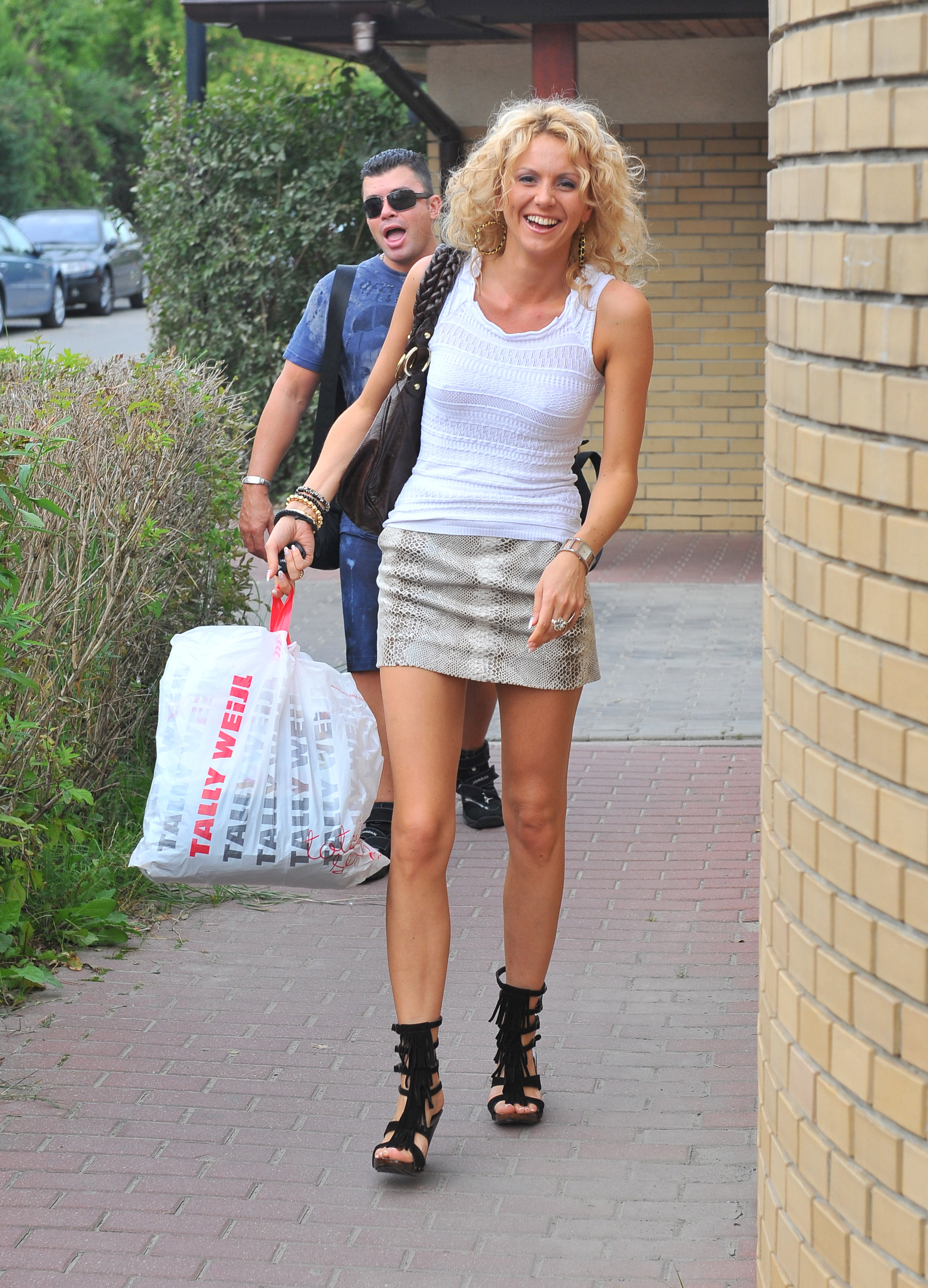 Kasia Nova z wokalistą No Mercy w drodze na trening przed występem na Miss Polski 2009 - zdjęcie wykonano w Warszawie